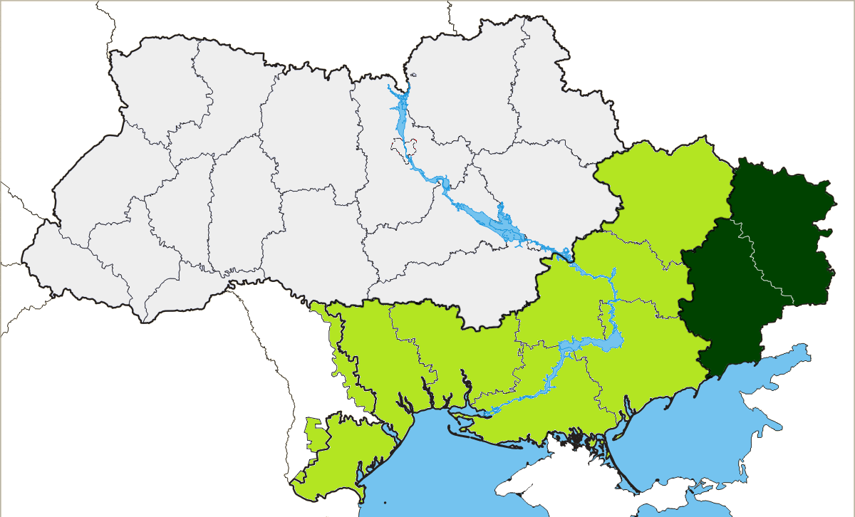 Federal States of Novorossiya